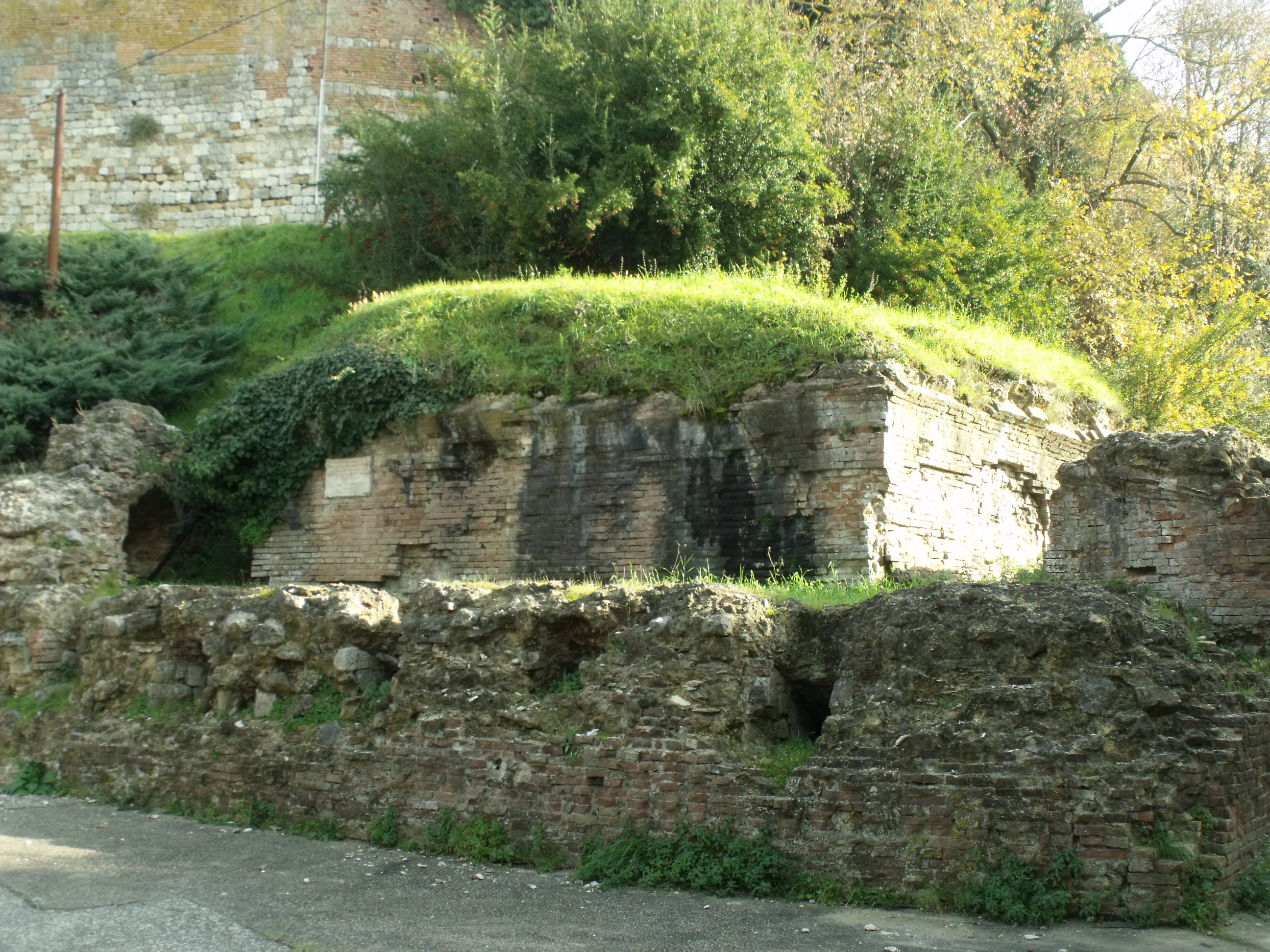 Bastion Fortino delle Donne, Via Montluc, Siena